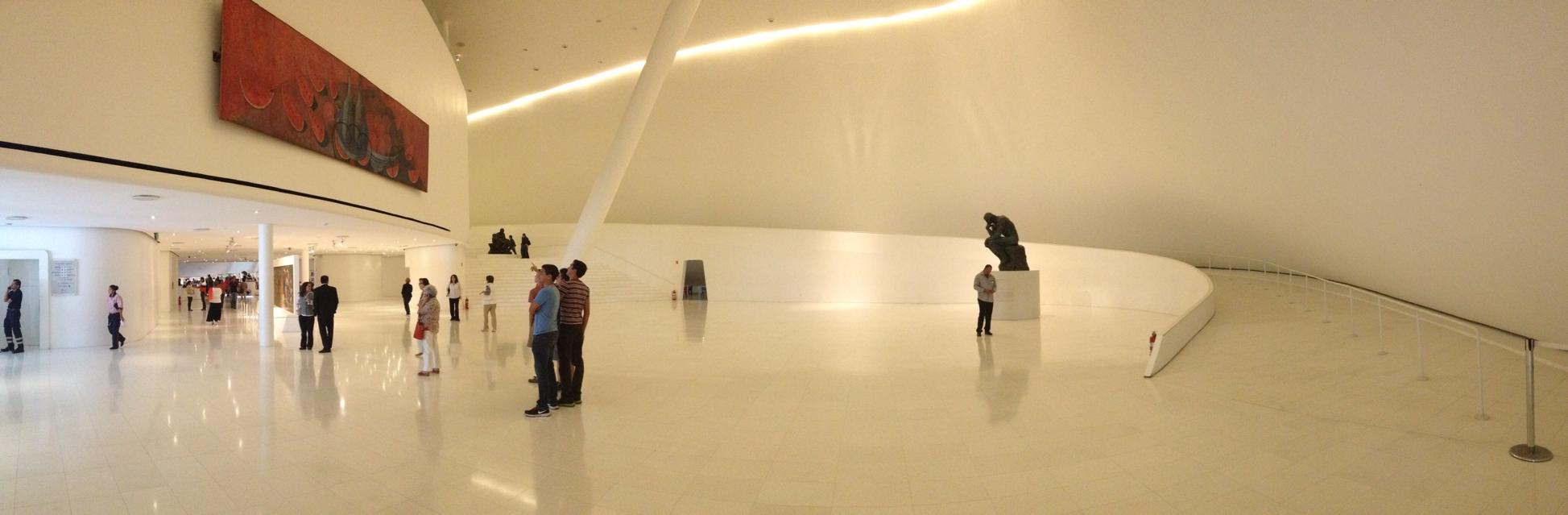 Entrance floor of the Museo Soumaya Plaza Carso. Photo was taken on June 2013.